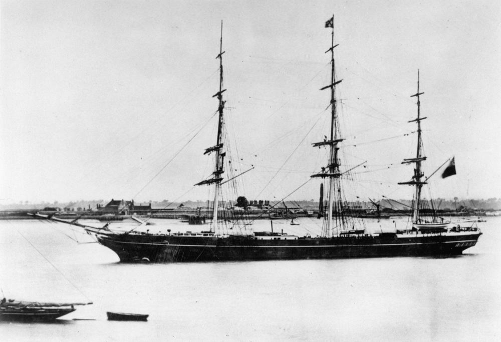 Tweed (ship) Moored on the same stretch of the Thames as the Assaye in another photo